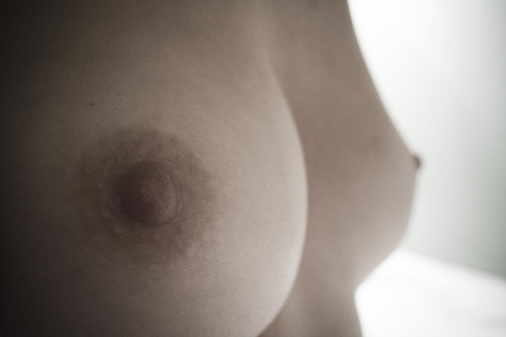 Female breast